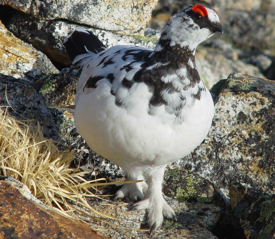 Rock Ptarmigan (Lagopus muta japonica, Lagopus mutus japonicus), male in Mount Otensho, Hida Mountains, Japan.